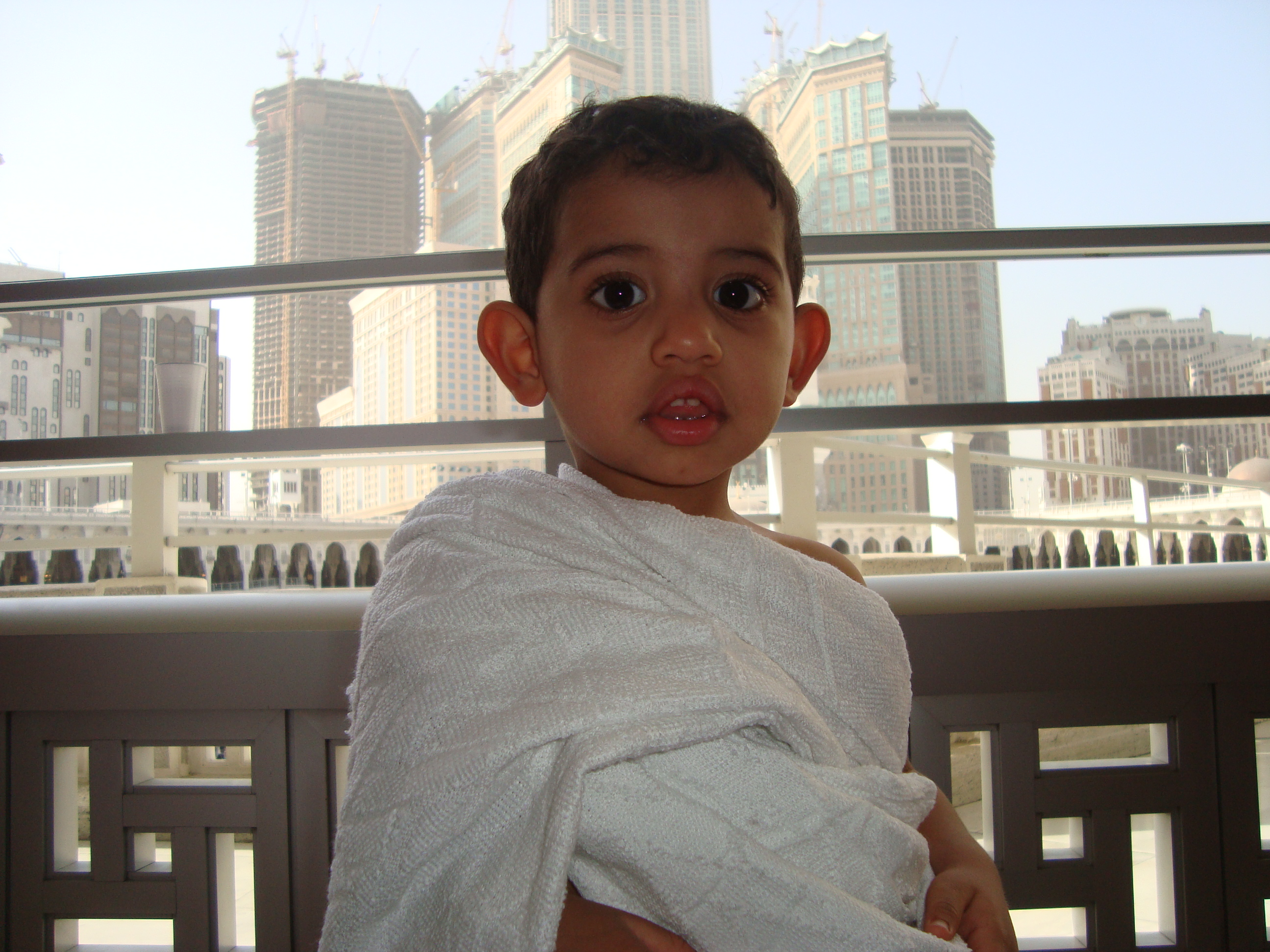 Children in hajj